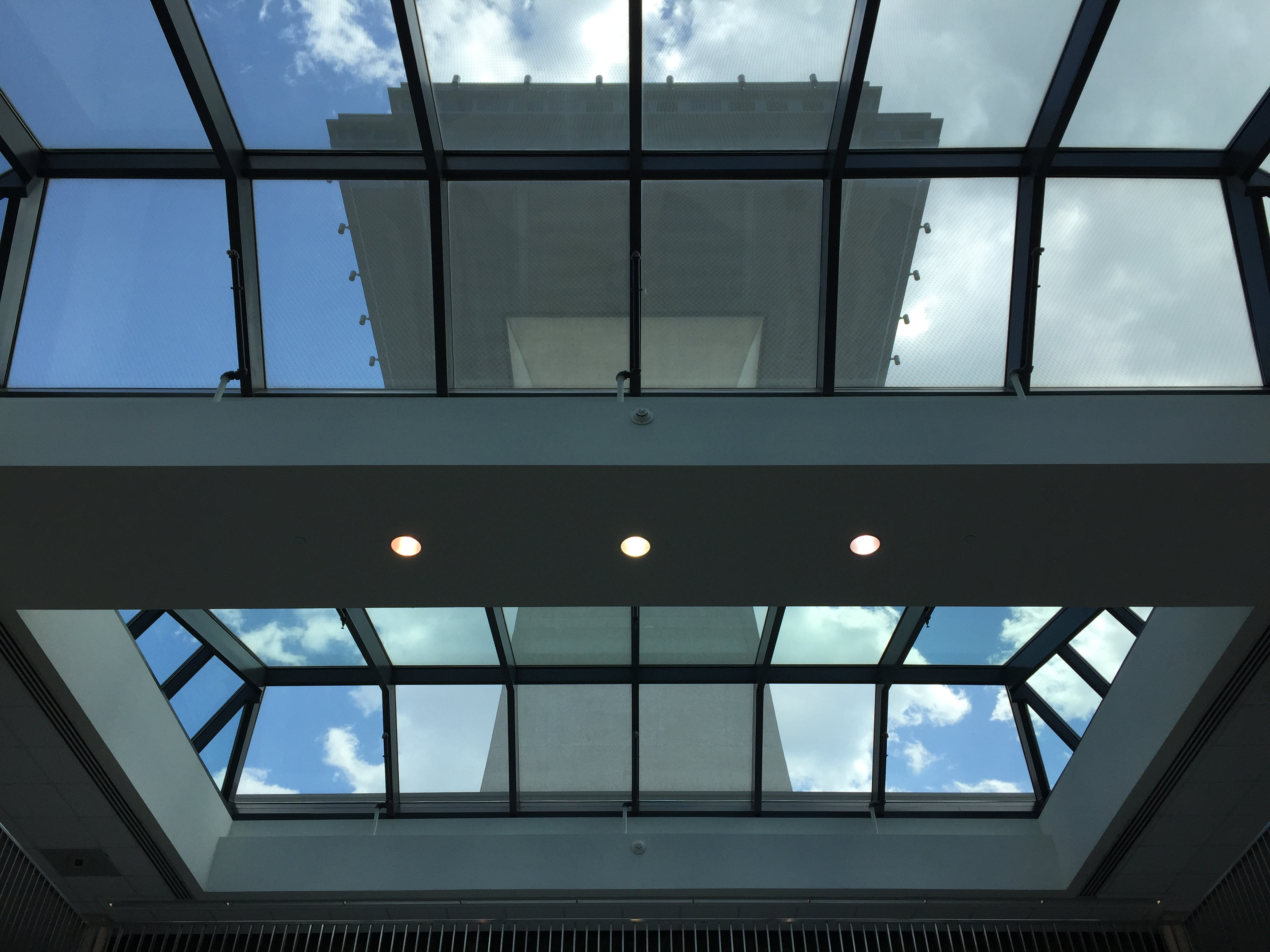 Washington Dulles International Airport tower through a skylight in 2019